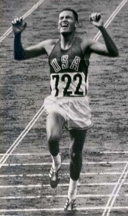 Billy Mills at Tokyo Games